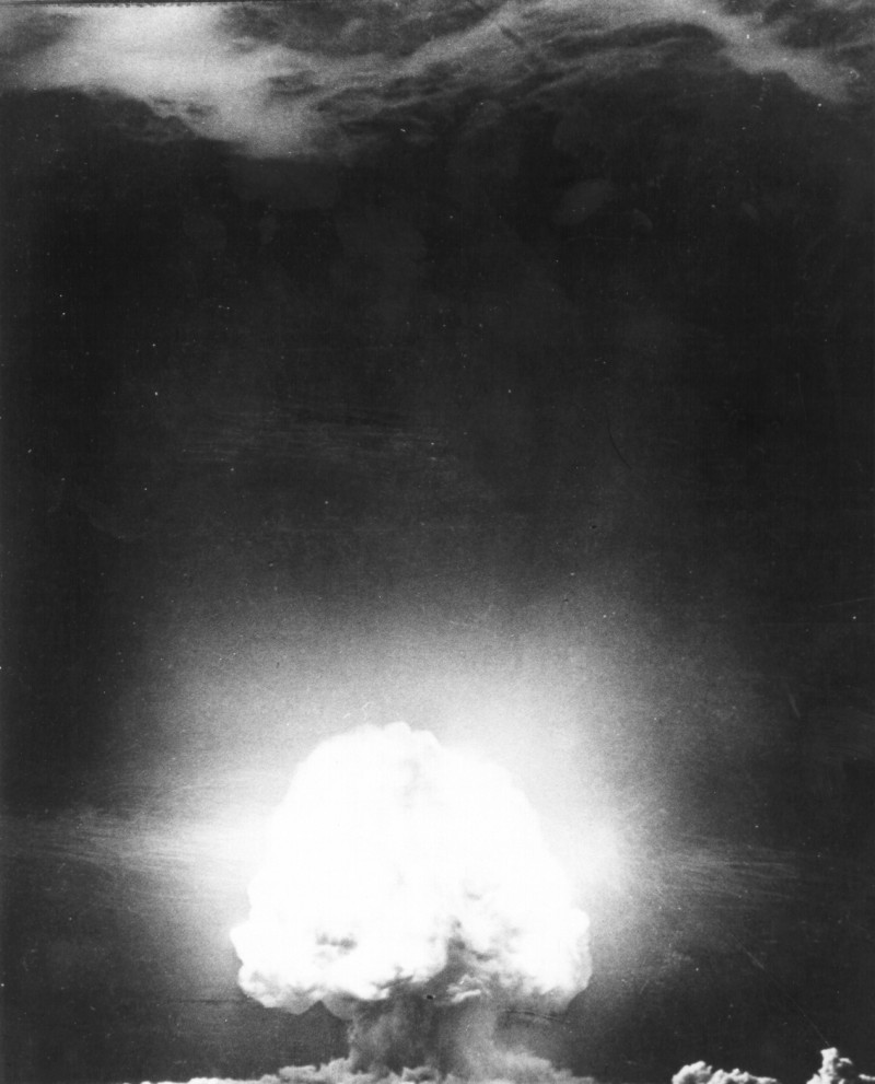 Trinity Test - Alamogordo, NM - July 16, 1945. Mushroom cloud after 12 seconds.